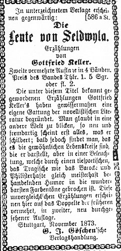 Publisher's announcement of a work by Gottfried Keller